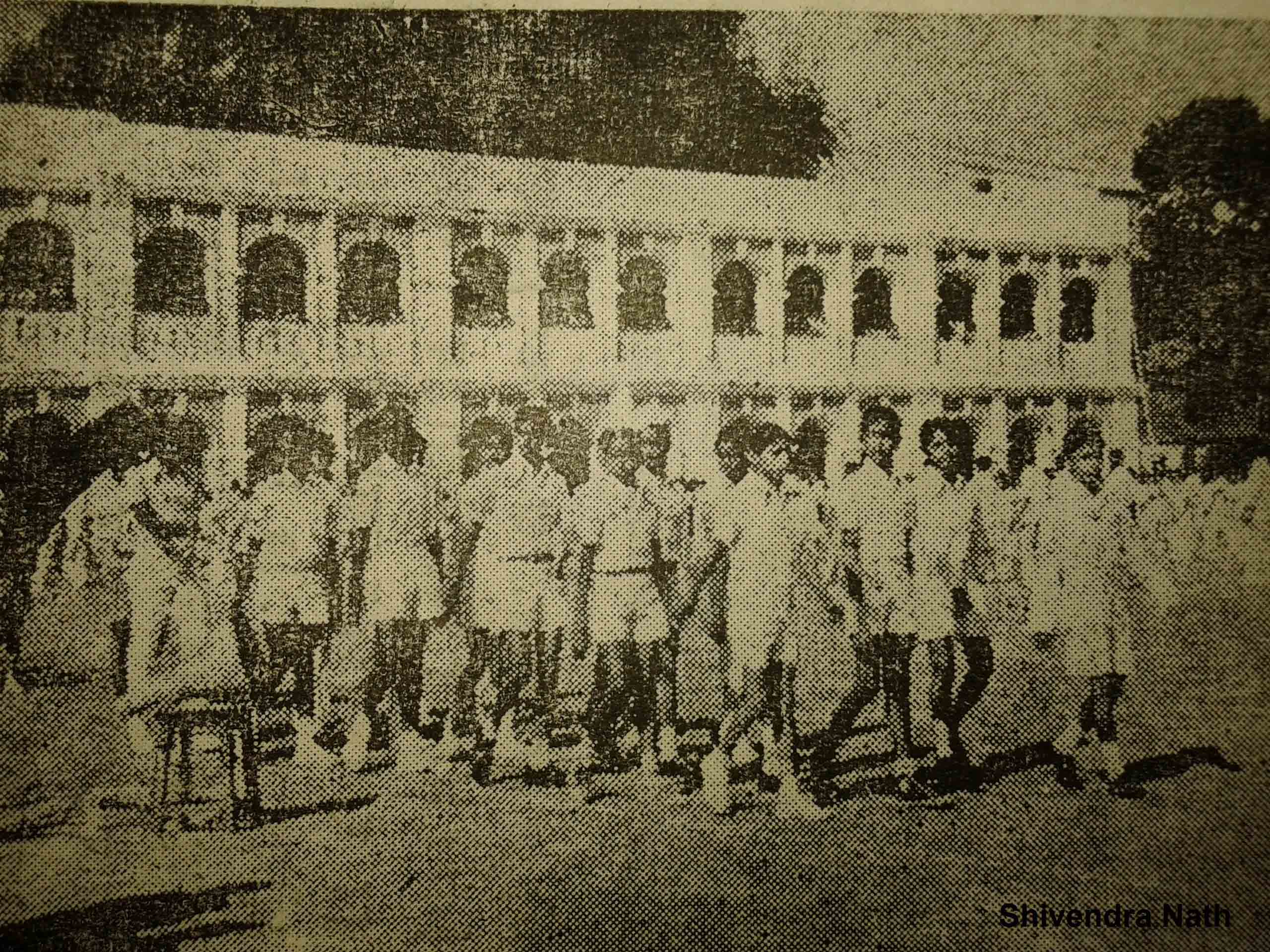 Parade in front of Hostel, 1976 from Nav Jyoti magzine